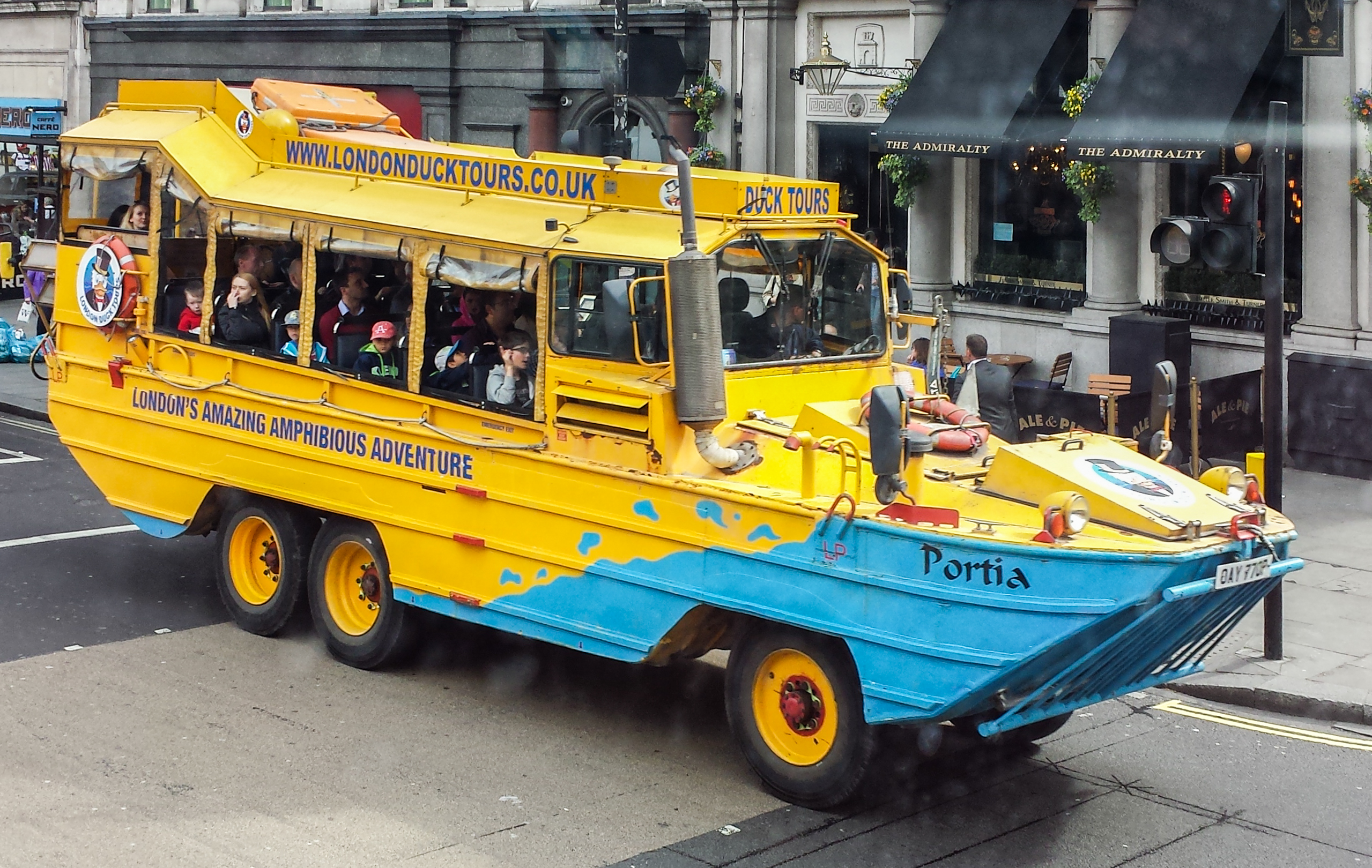 A London Duck Tours DUKW amphibious vehicle in Trafalgar Square, London.